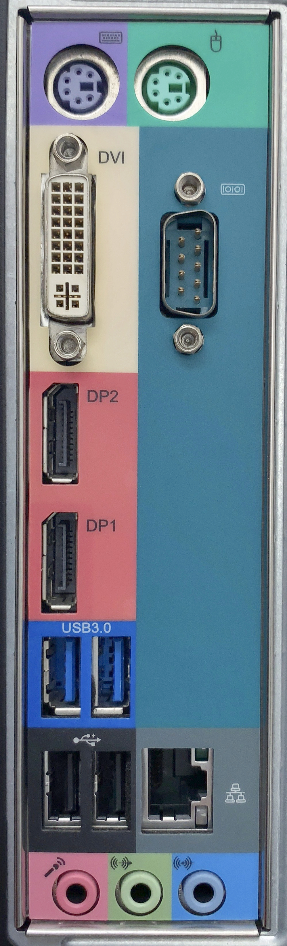 Acer Veriton Back Panel Interface